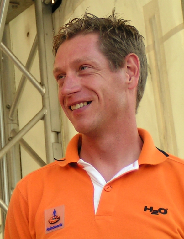 The Dutch racing cyclist Jan Boven at the team presentation for the Deutschland Tour 2006 in Düsseldorf, Germany.